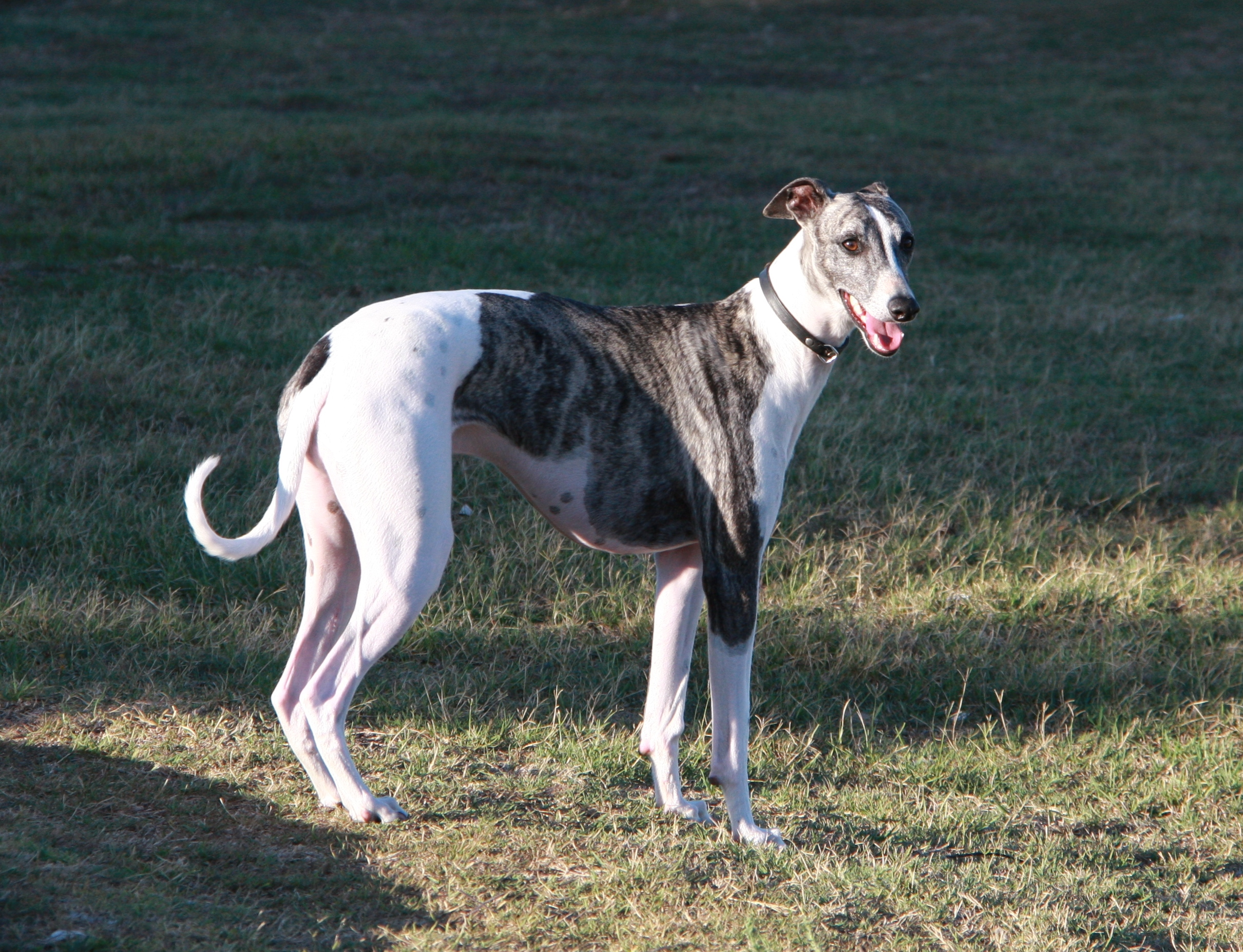 Greyhound dog